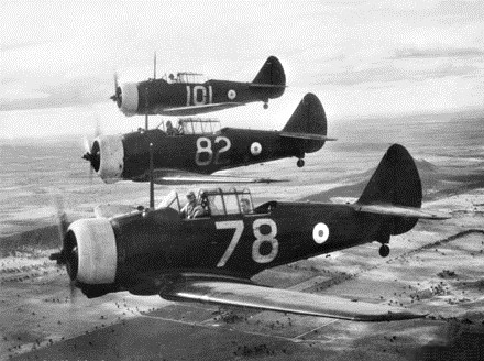 AWM Caption: Three CAC Wirraway aircraft of No 2 Service Flying Training School RAAF station Wagga in formation during a flight in the Wagga area. Aircraft A20-78 is piloted by Flight Lieutenant Blake-Pelly, A20-82 by Flight Lieutenant R C Cresswell and A20-101 is piloted by Victor Wood.